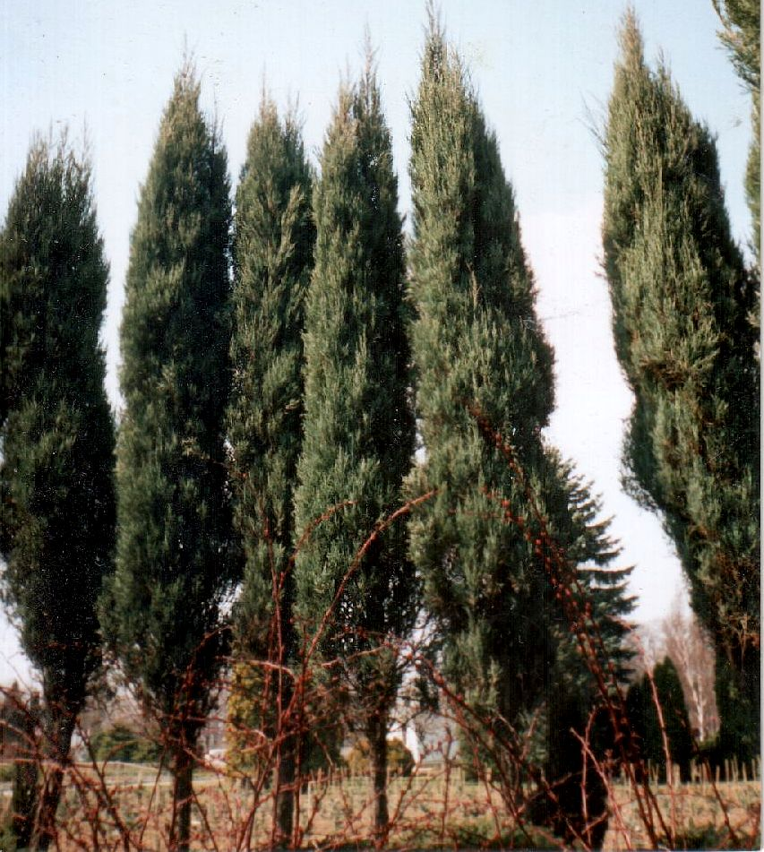 Juniperus scopulorum 'Skyrocket' Česky: Juniperus scopulorum 'Skyrocket' matečnice v Hostýnské školce